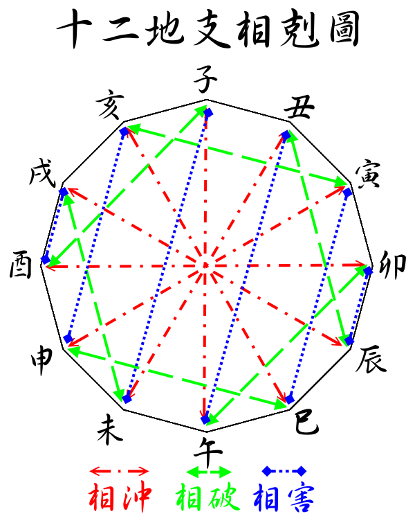 How earthly branches destroys each other.